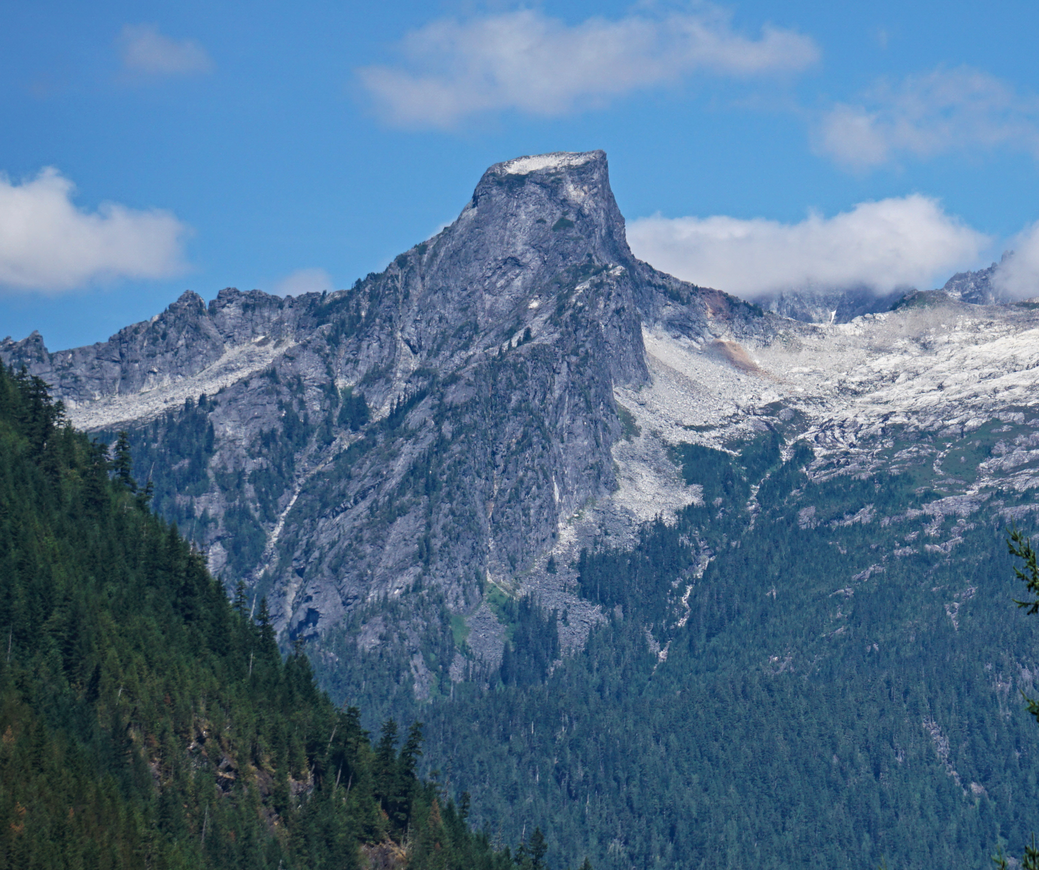 The Chopping Block aka Pinnacle Peak in North Cascades National Park, from Newhalem Visitor Center